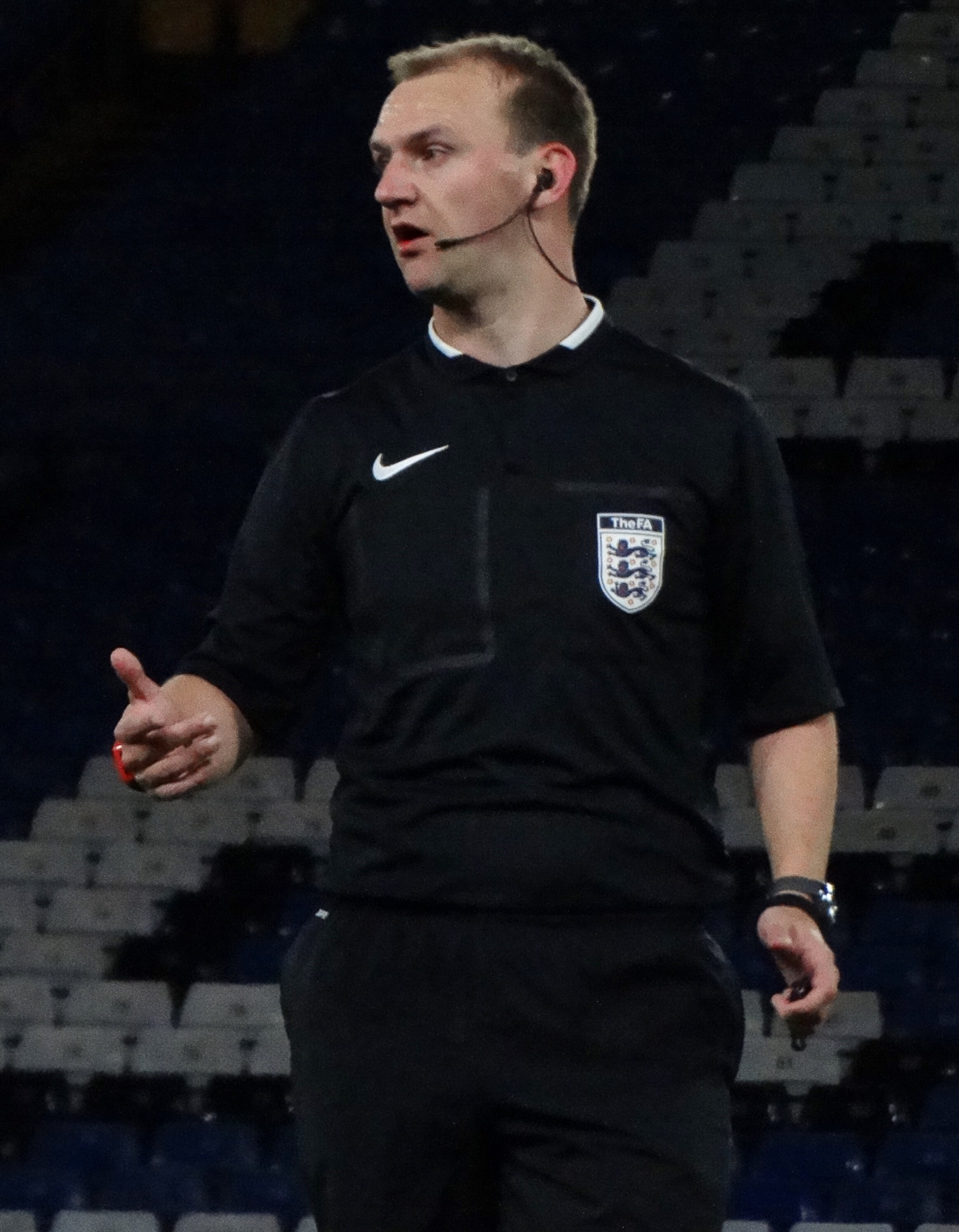 Robert Madley refereeing 2015 FA Youth Cup final second leg.